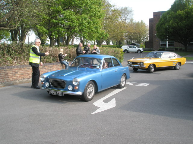 New arrivals for the 2009 Havant Mayor's Rally (3) An annual event to raise money for his chosen charities. This year there were 121 motor vehicles and 83 motorbikes entered.